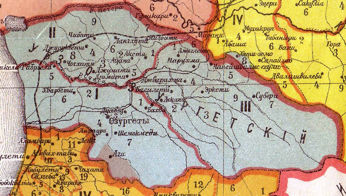 Ethnographic map of the Kutais Governorate